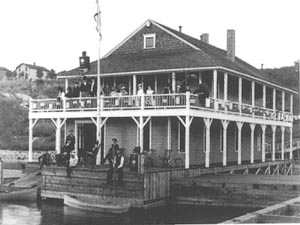 Clubhouse 1